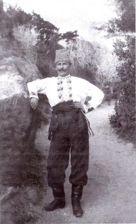 Ukrainian in Crimea, a postcard, 1913.